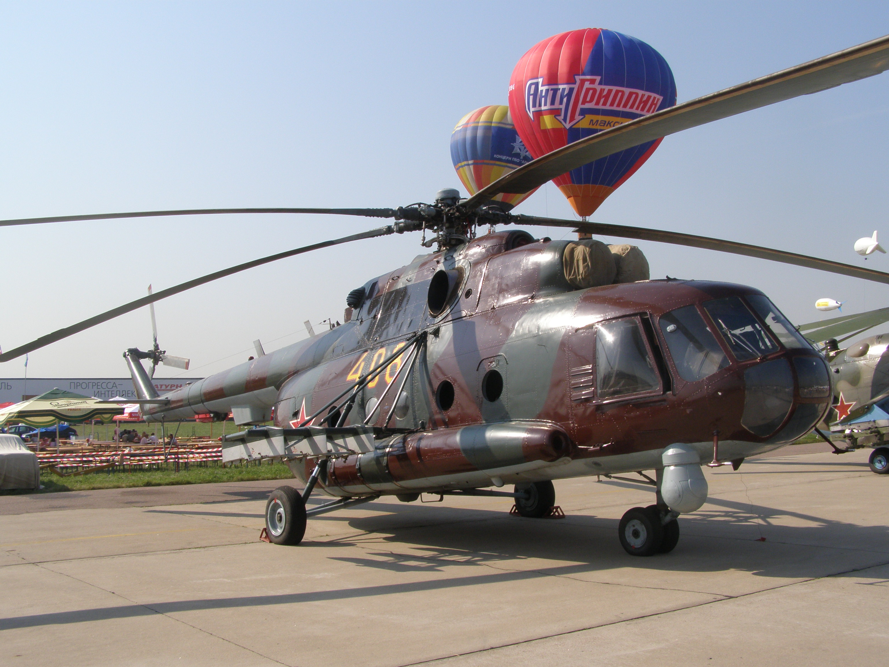 new variant of the russian Mi-8 helicopter on MAKS-2007 airshow